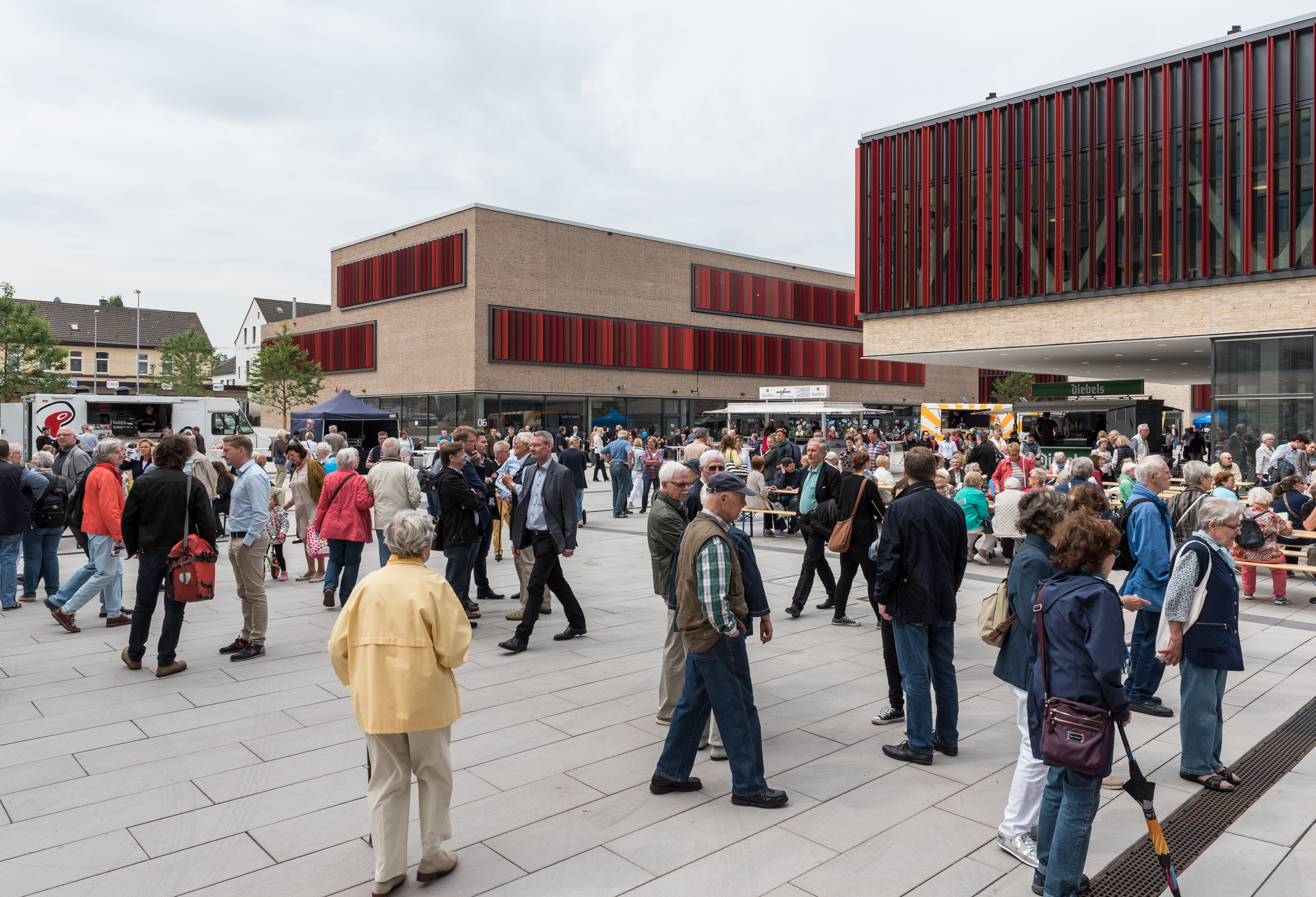 Opening of the campus of Hochschule Ruhr West (University of Applied Sciences) in Mülheim at 2016-06-11